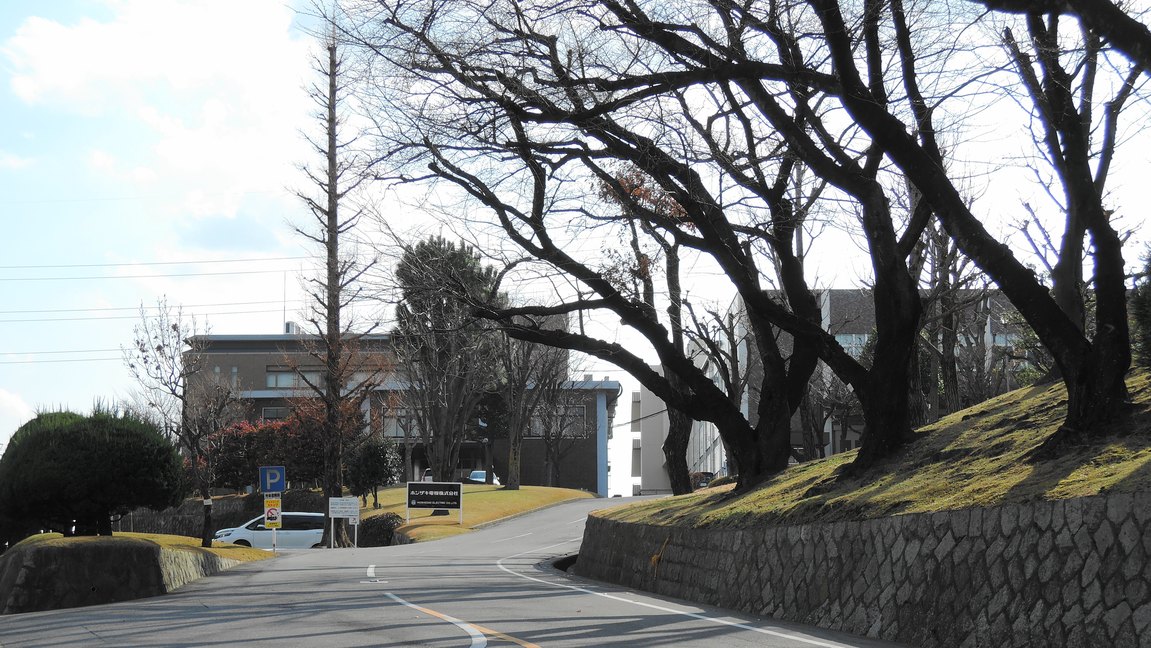 Headquarters of HOSHIZAKI ELECTRIC CO., LTD.,Aichi prefecture,Japan